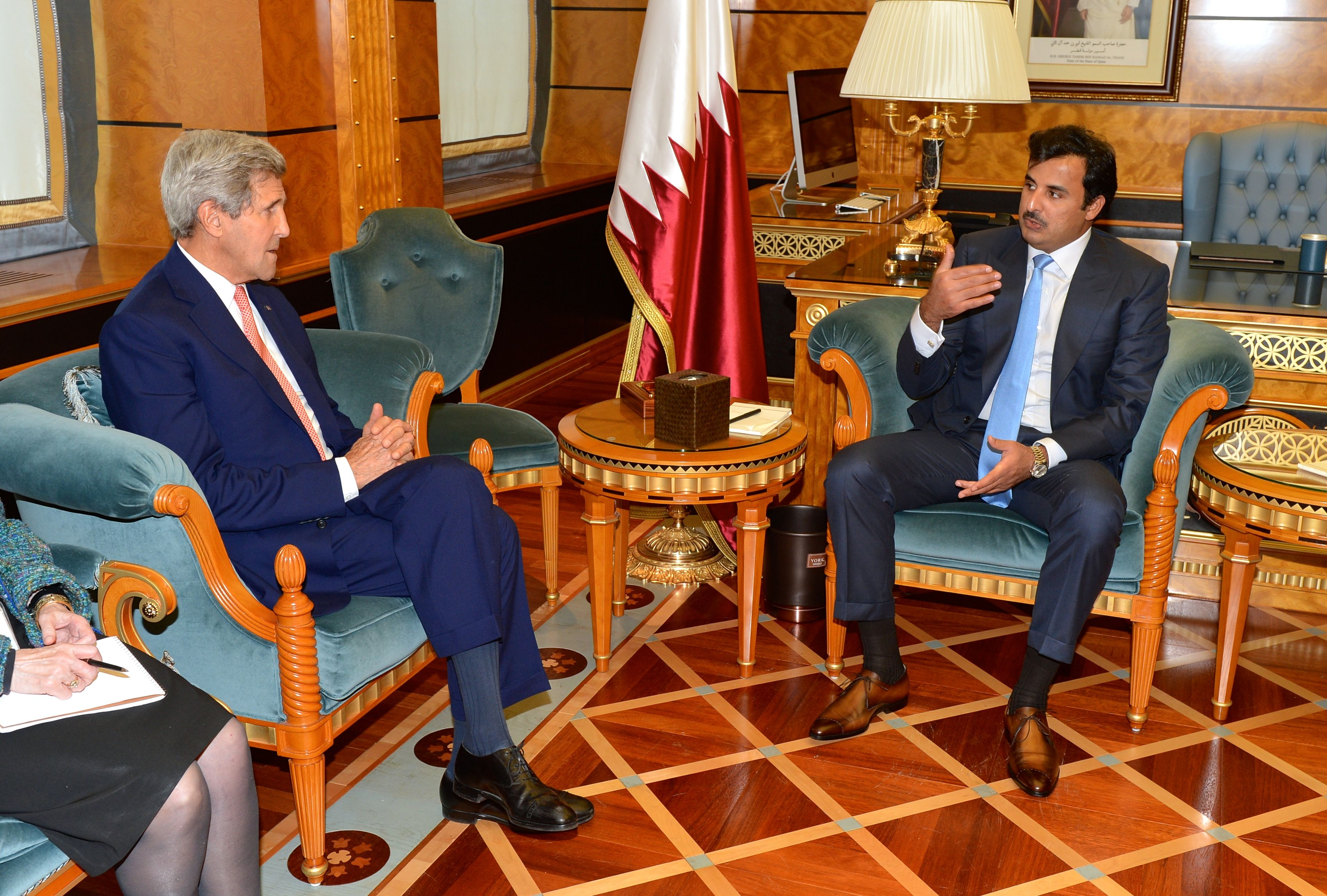 U.S. Secretary of State John Kerry meets with Qatari Emir Hamid bin Khalifa Al Thani on the margins of the 69th session of the United Nations General Assembly in New York City on September 25, 2014. [State Department photo/ Public Domain]